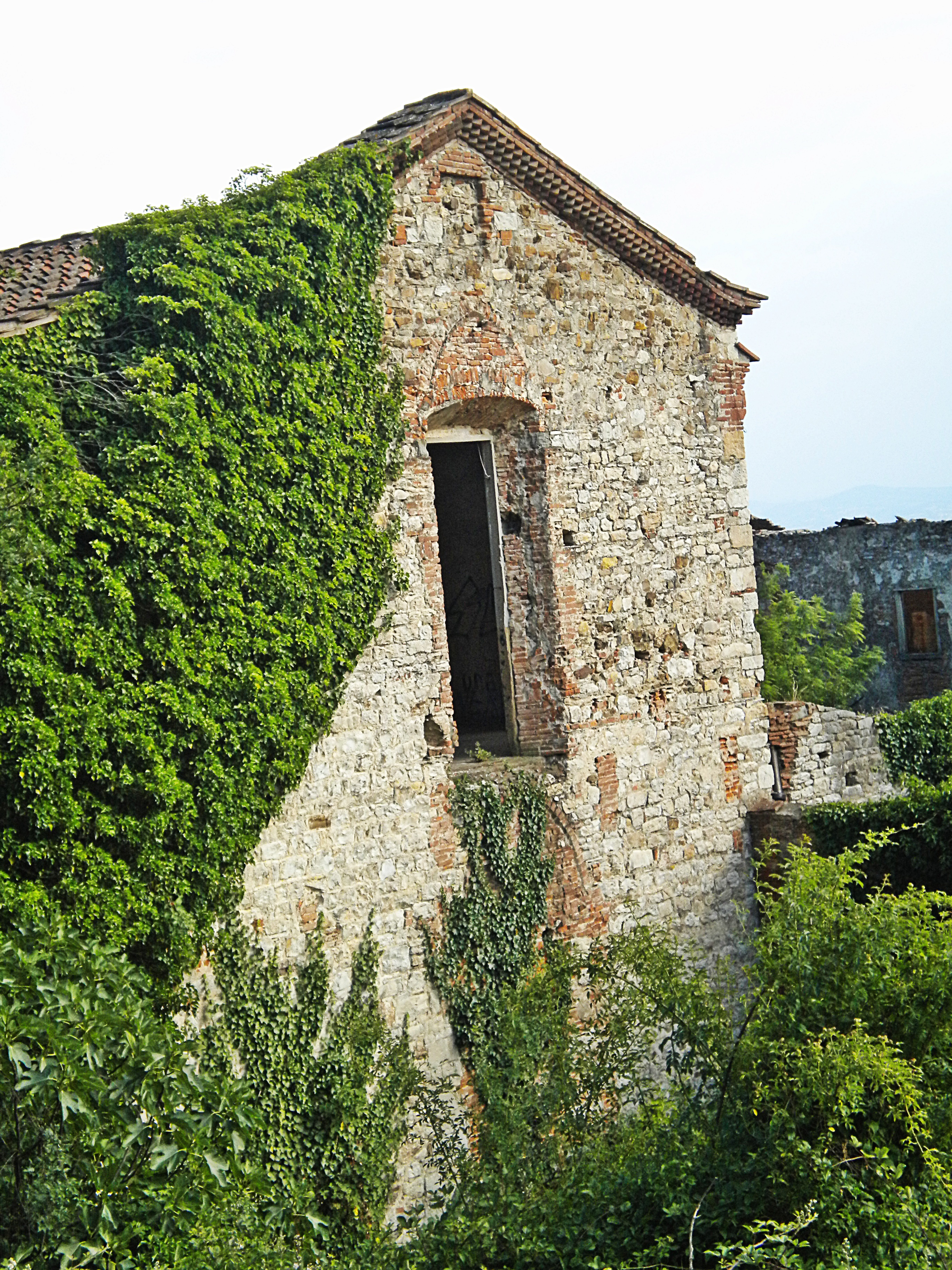 Villa Le Sacca